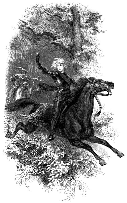 Eisenhans - the mysterious knight by Robert Leinweber